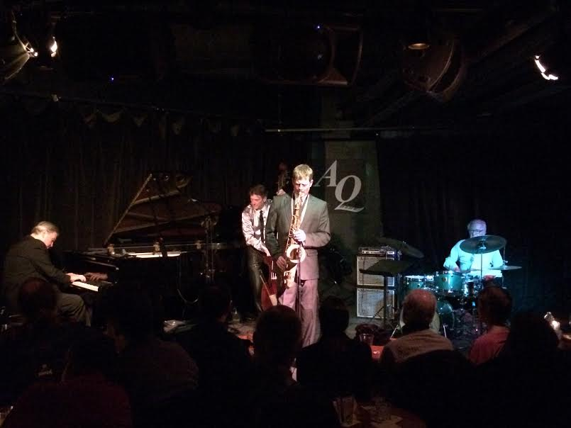 Live jazz performance by Eric Alexander, David Hazeltine, Billy Peterson, and Kenny Horst at the Artists' Quarter jazz club